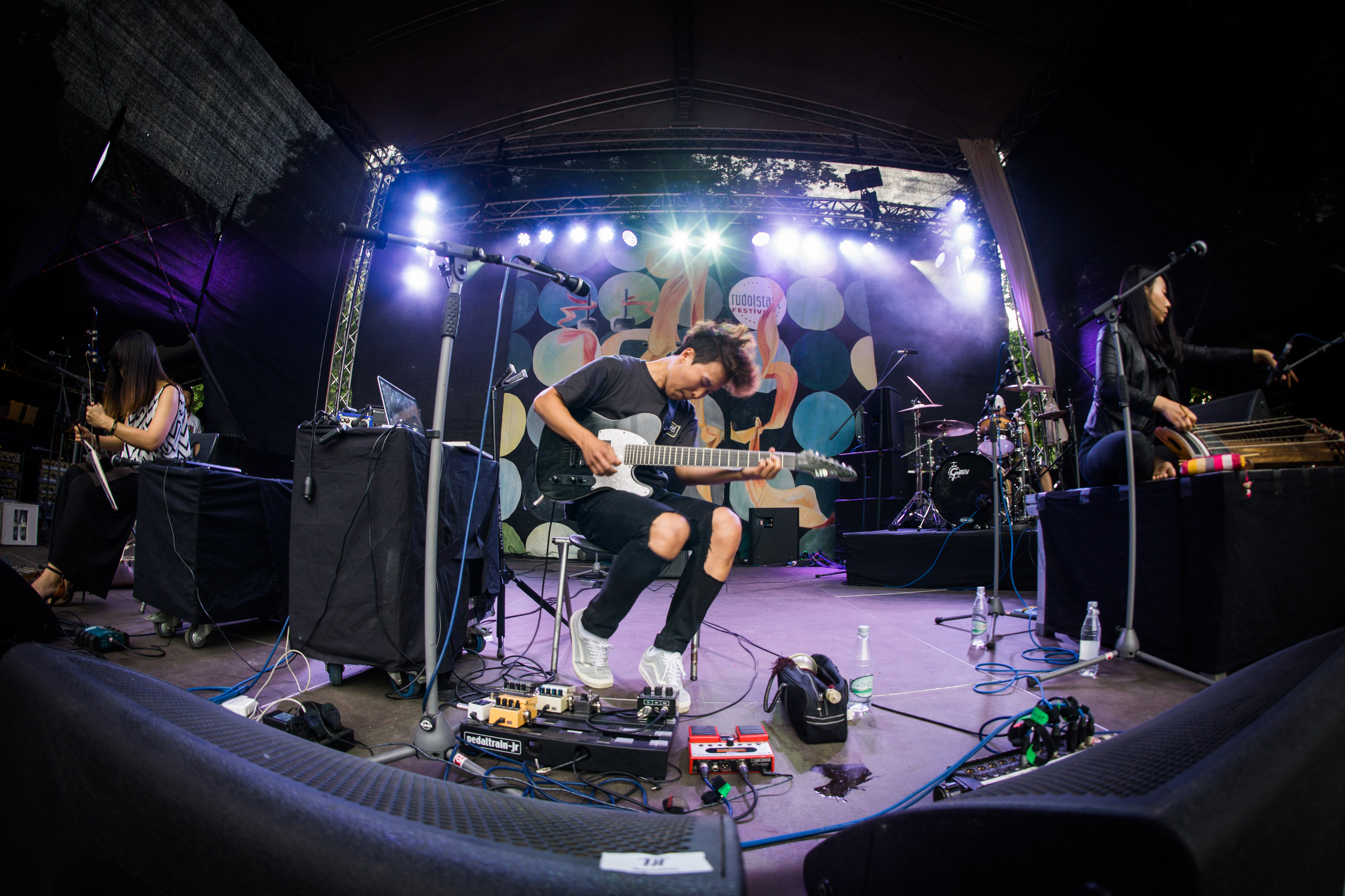 Jambinai at Rudolstadt-Festival 2016 Festivalsommer This photo was created with the support of donations to Wikimedia Deutschland in the context of the CPB project "Festival Summer".